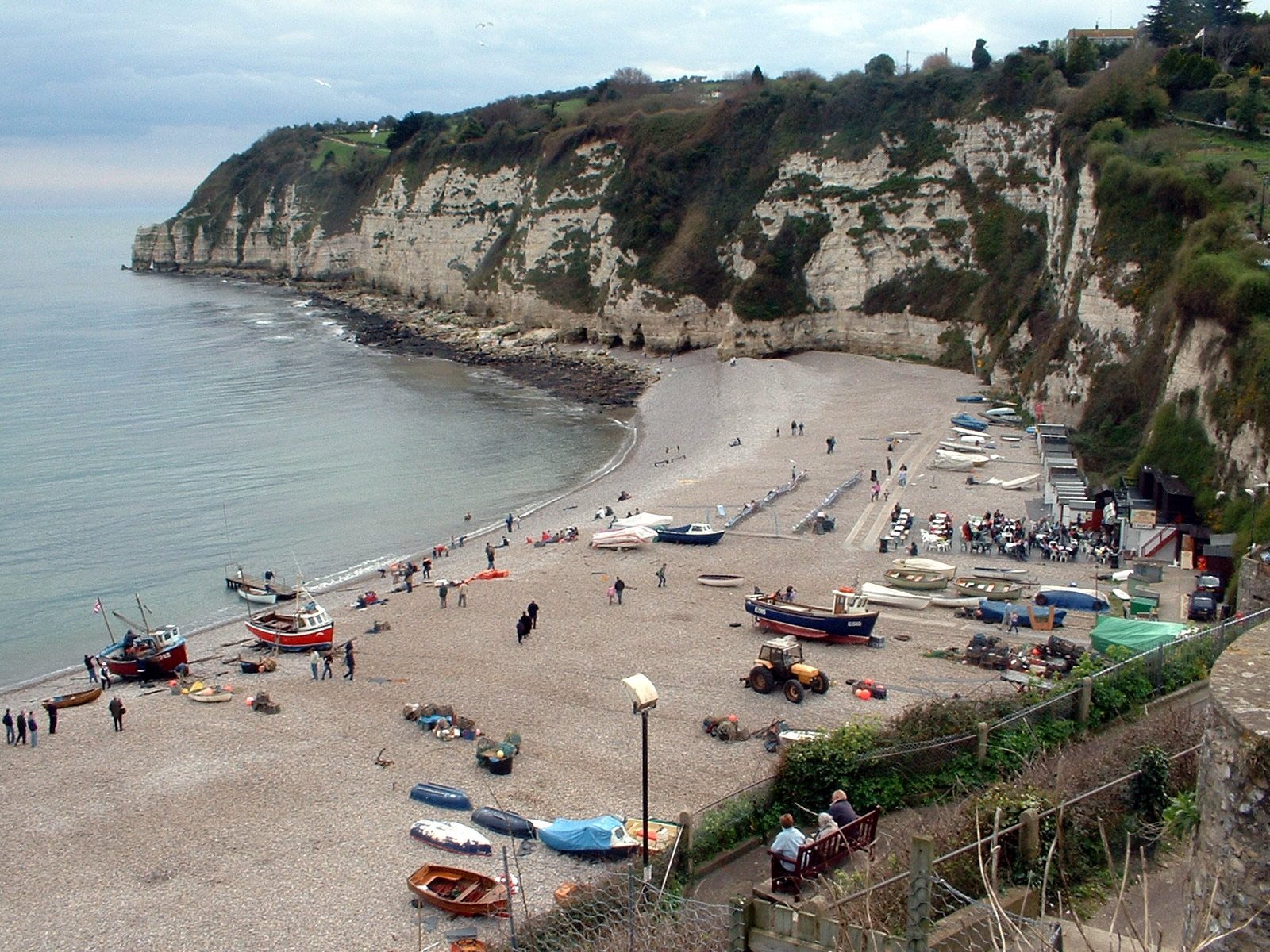 OS reference SY230891 Taken 17-Apr-06.